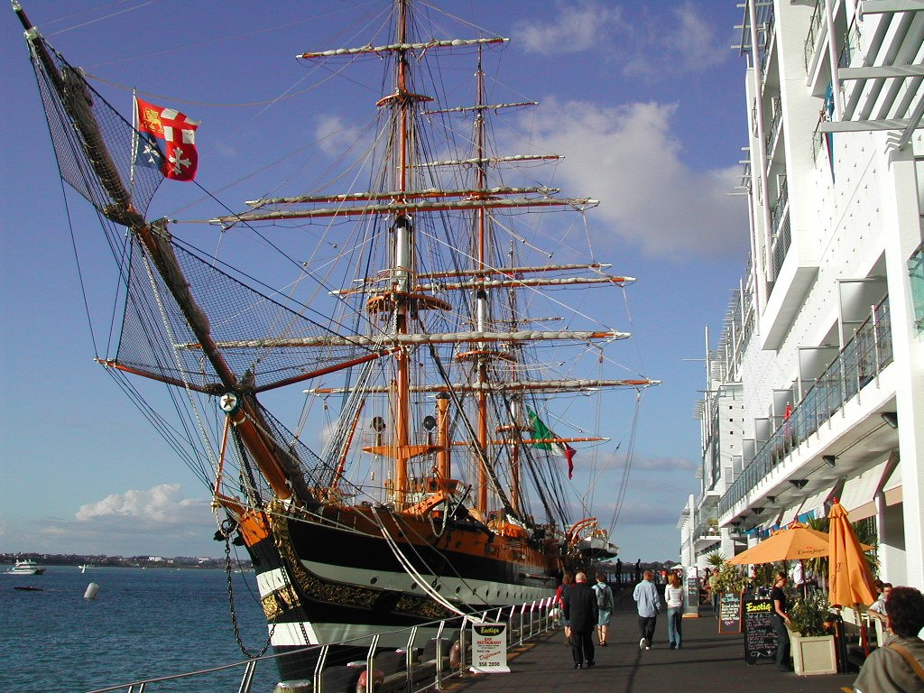 Amerigo Vespucci at Auckland harbour, New Zealand, November 2002.